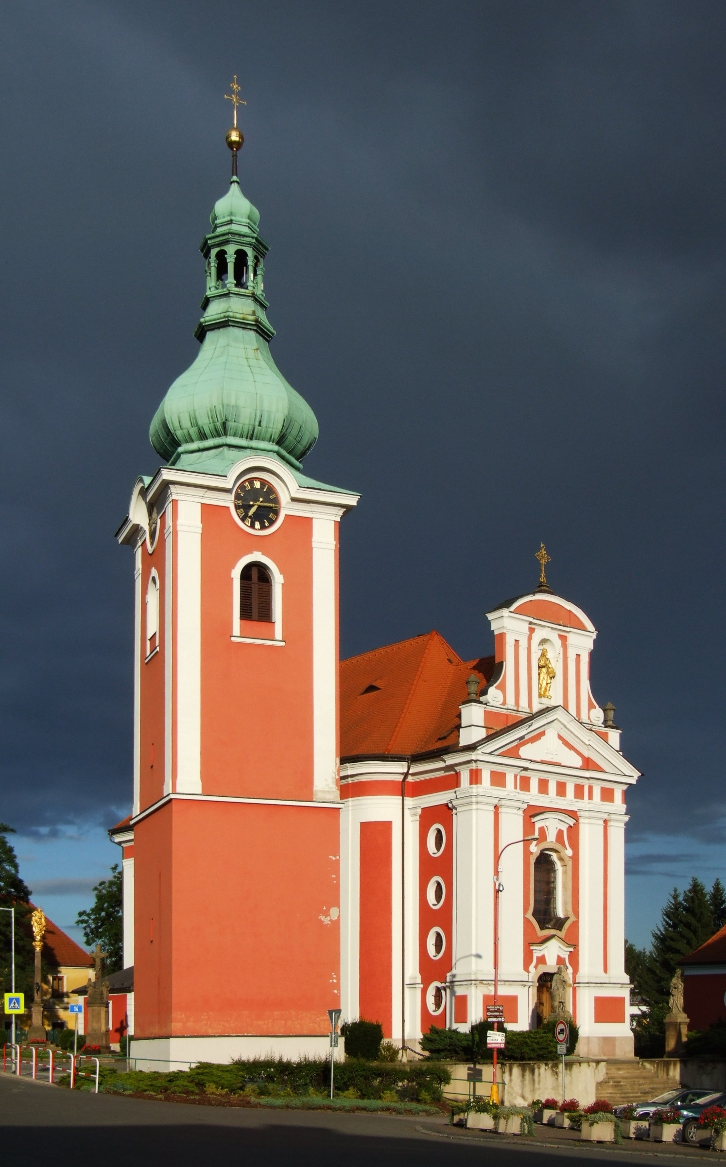 Červený Kostelec (Rothkosteletz) - church of Saint James